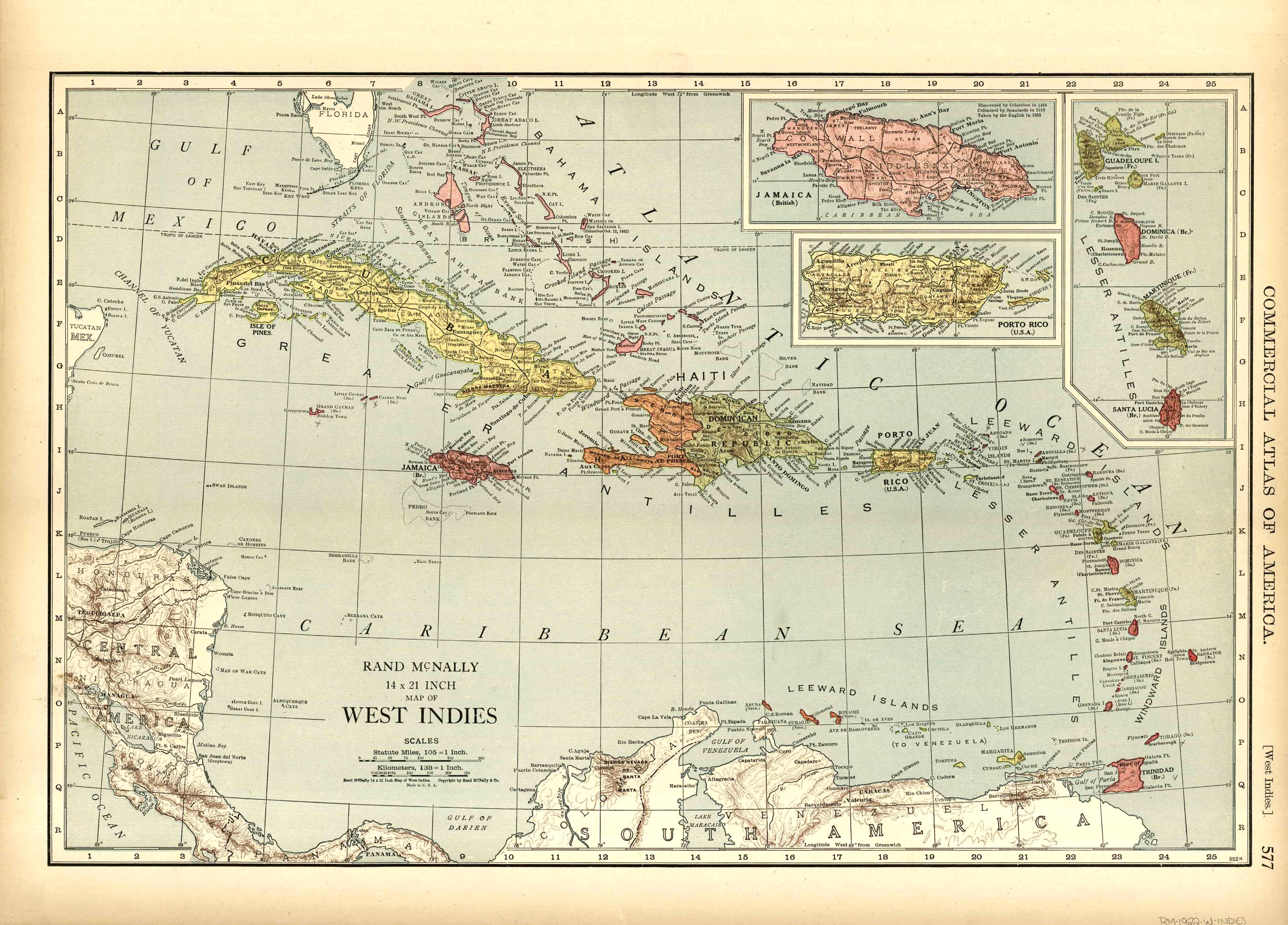 This map of the West Indies was produced by Rand McNally and Co. as part of its Commercial Atlas of America. The detail shown on each map is exceptional because of the map size. These maps were intended to be used by business for shipping, etc. Roads, railroads, and rivers are clearly shown. There is more detail on these maps than any others during this time period. Printed Color, 19 x 12.5 inches.